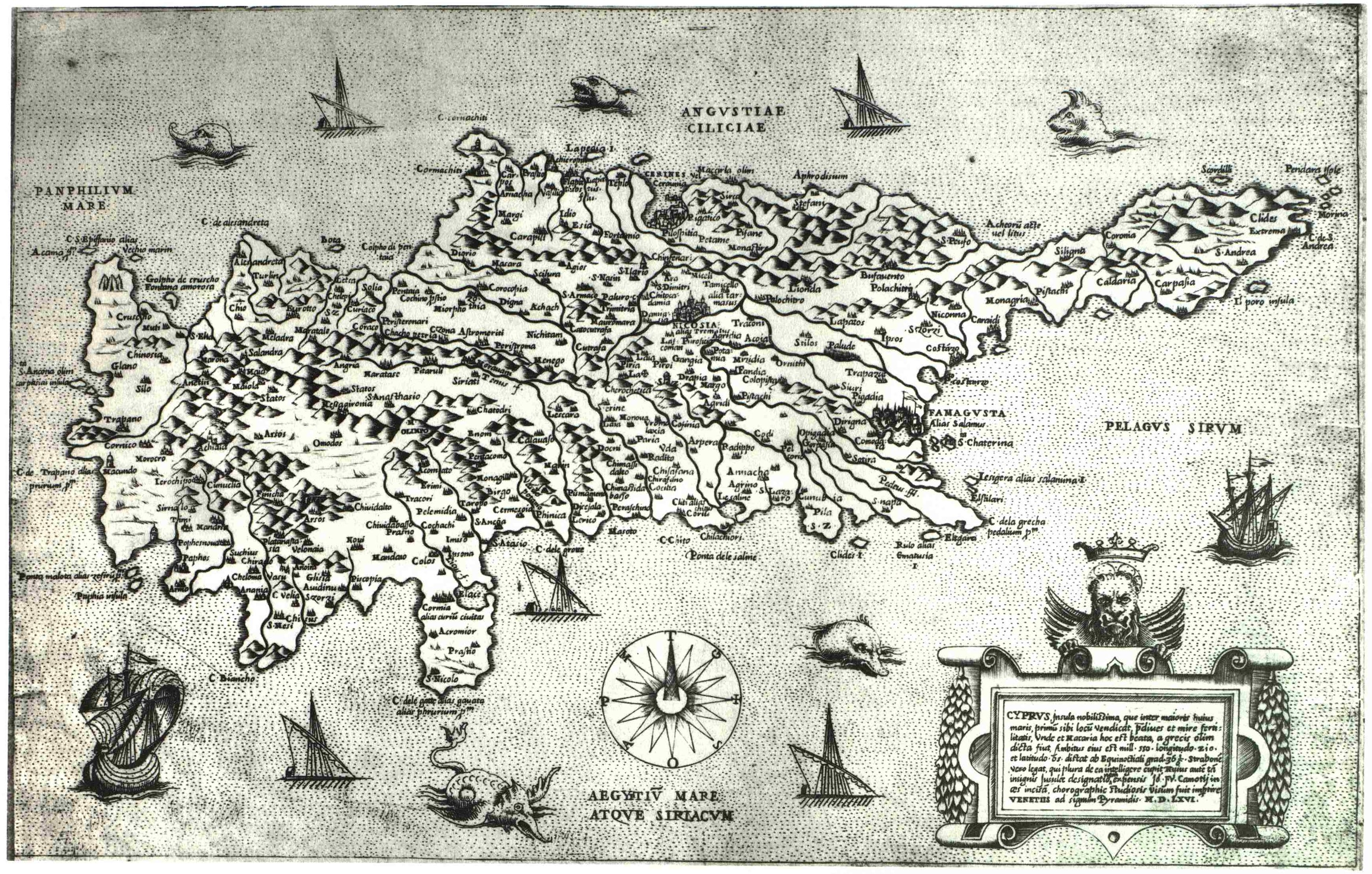 A map of Cyprus (copperplate engraving) published at Venice.